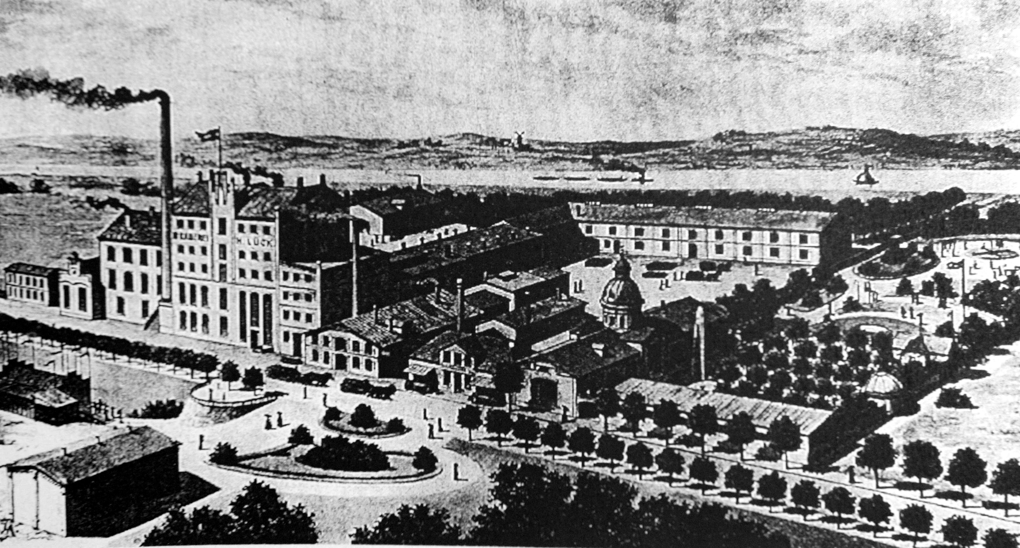 Lück Brewery